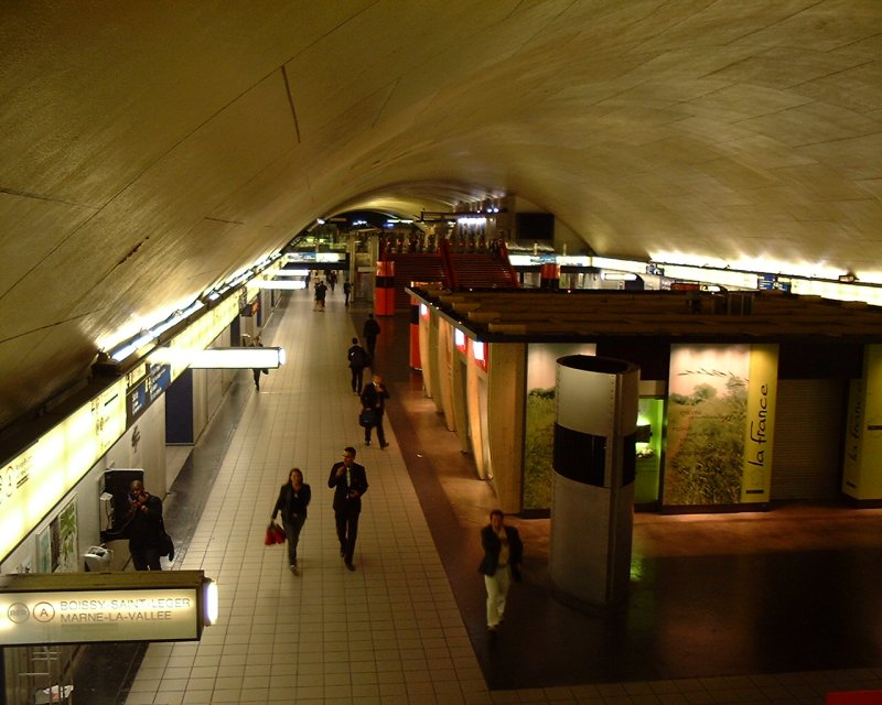 Ticket hall of Auber RER station, Paris.